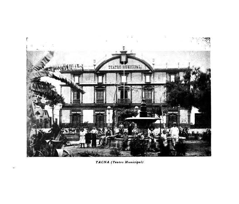 Chile at the Pan-American Exposition: Brief Notes on Chile and General Catalogue of Chile Exhibits Published 1901